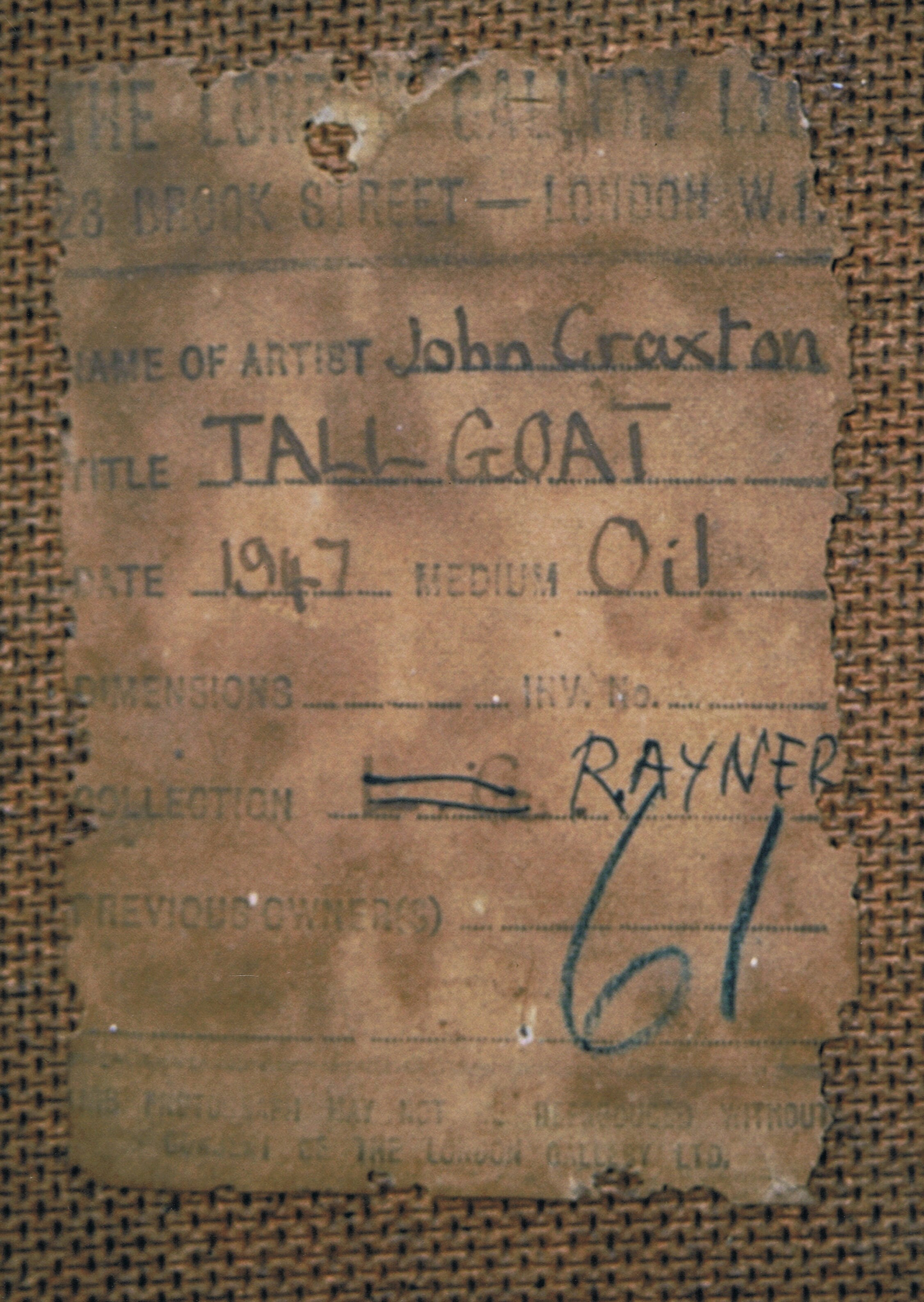 back of Craxton painting Tall Goat, 1947. Photo (R. de Salis), partly uploaded to show the peculiarity of copyright law, in that if I'd loaded a picture of the front it'd probably be deleted to the world's loss, BUT whereas the beautiful label...!Rodolph 09:58, 25 October 2007 (UTC)